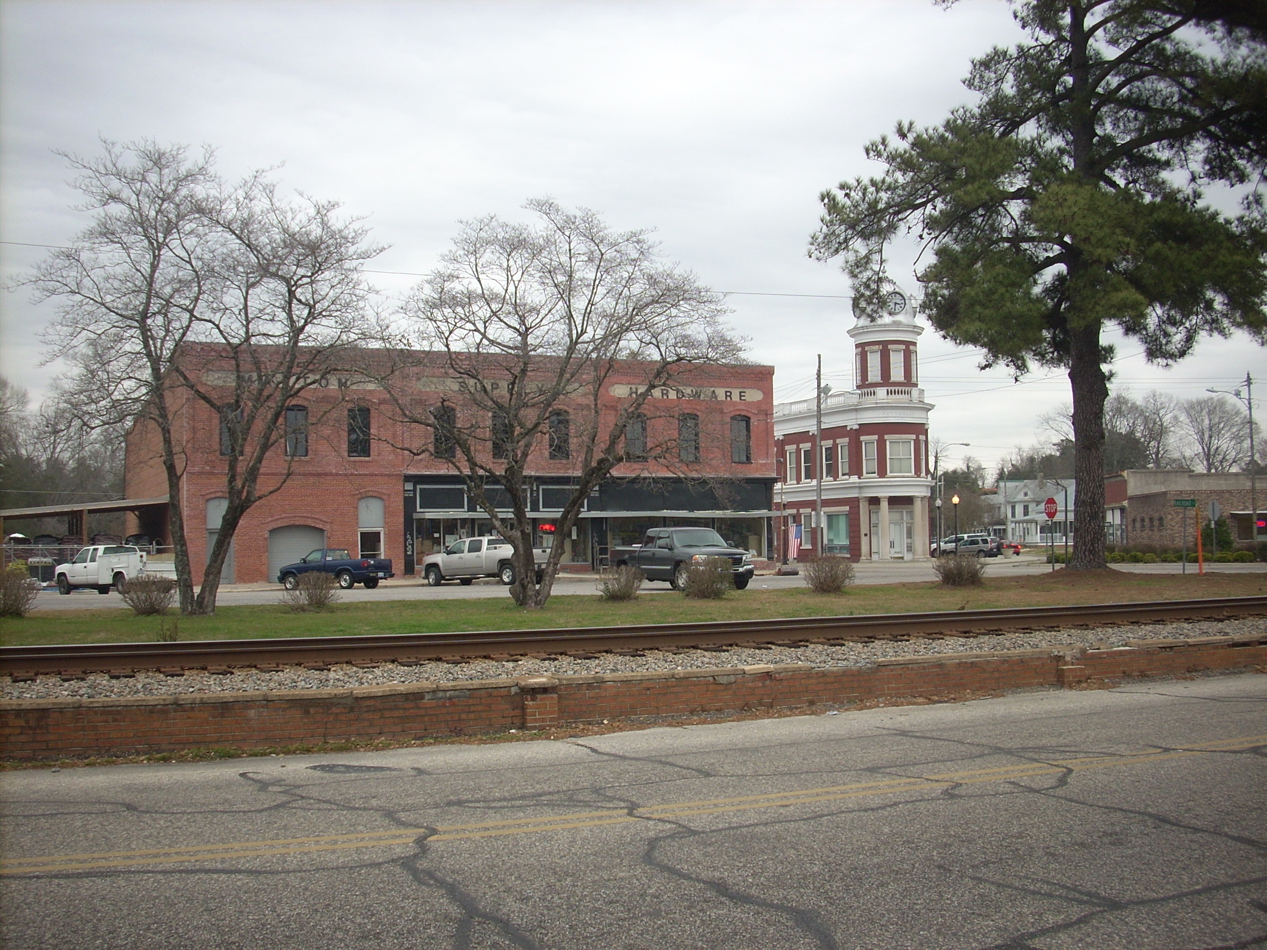 Maxton has seen better days. It was once an important center of commerce in southeastern NC. This is a view of the downtown area.